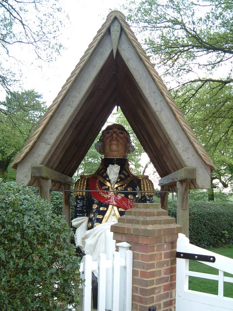 Ship's Figurehead, Hunt's Green. Ship's figurehead. 1860 from HMS Howe (1860). Renamed 'Impregnable' as a training ship. The ship was broken up in 1921, timbers were used to build Liberty and Co.'s store in Regent Street. The figurehead was removed to The Lee and set up adjacent to Pipers by the Liberty family circa. 1924. Half length figure of Lord Howe in admiral's uniform on Scroll from prow of ship. Painted timber. Listing NGR: SP8999903920 [1] Original description: This is quite an amazing site at any time - however when it looms out at you in your headlights on a misty evening it can give you quite a shock I can tell you - and I speak from experience. Research on the net suggests that it is a representation of Admiral Lord Howe - and is either from the eponymous "Howe" warship, or from the Navy's last wooden warship "Impregnable". If I get to the bottom of it, I'll modify this comment ! These days it has its own little roof for protection - since it was repainted I think. It is on a bend in the road to The Lee near Hunt's Green and guards the gate to a property called Pipers (which is in the adjacent square).